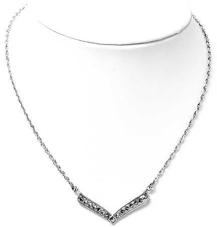 A silver and marcasite necklace. Original description from Flickr: "You know, just in case you -- or others -- forget exactly where your cleavage is. Demure? You? Hah! (Stirling Silver and Marcasite)"